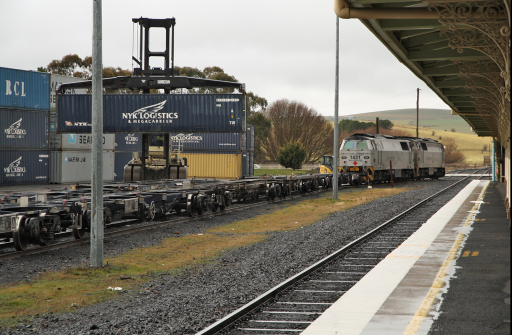 Container Terminal at Blayney Railway Station, Blayney, NSW, Australia.